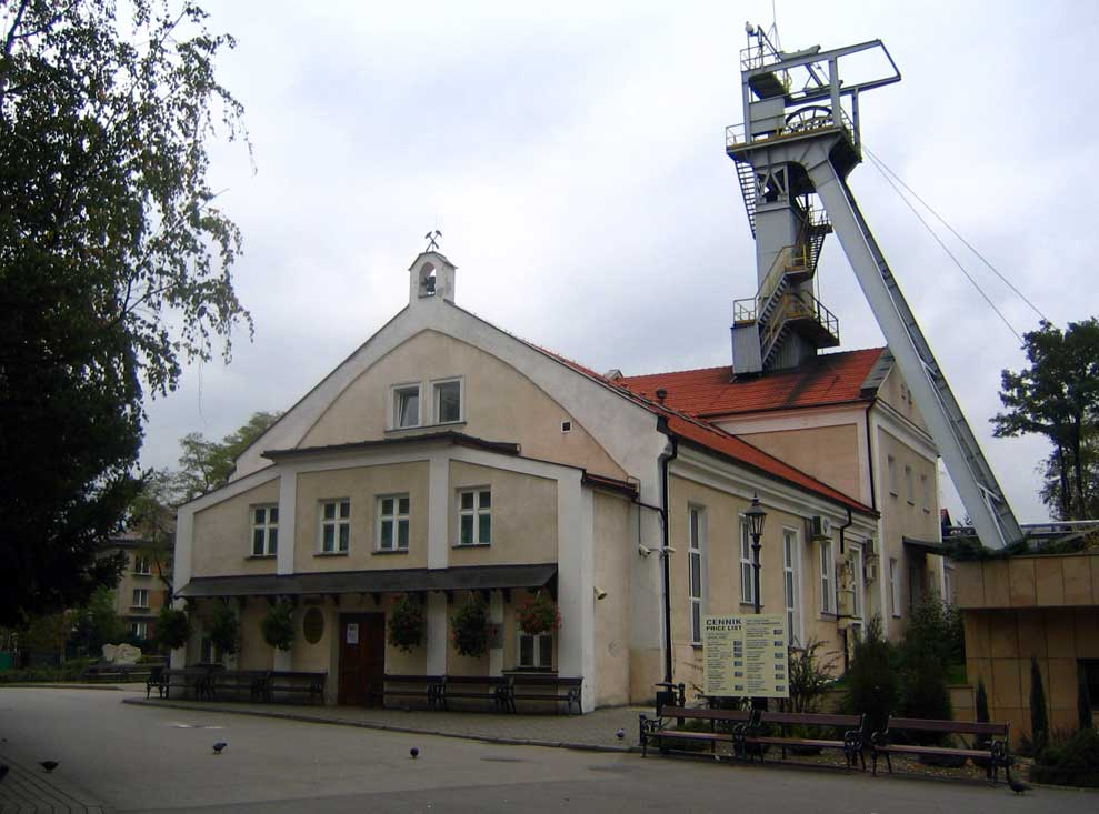 Wieliczka salt mine, Poland